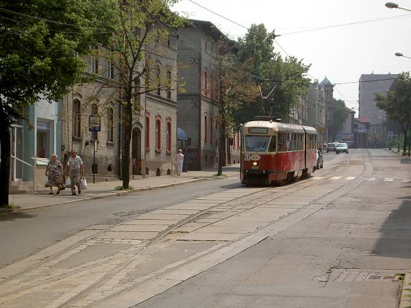 Articulated 102Na Type car, Chropaczów